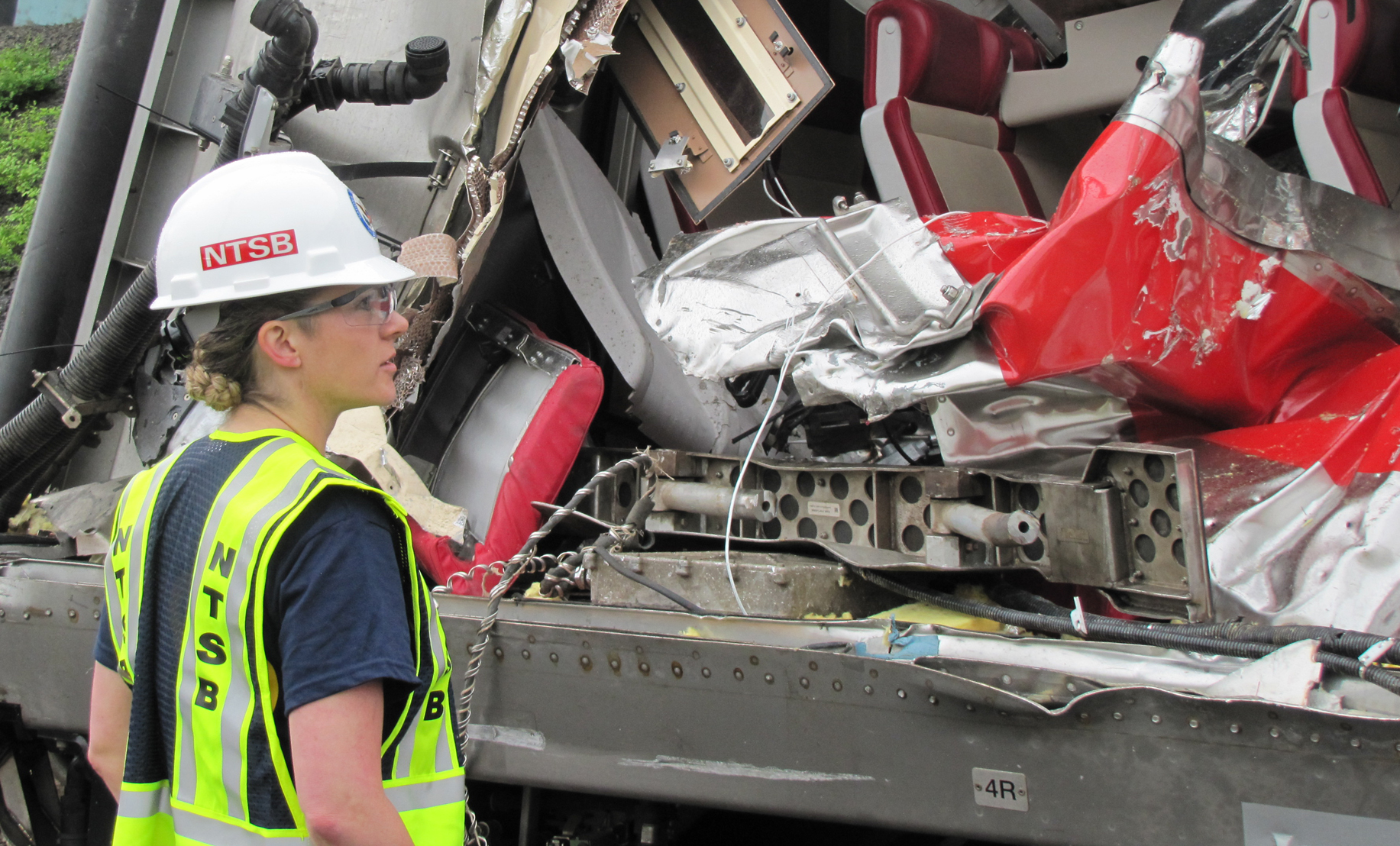 NTSB team member Shannon Bennett on the scene of the train derailment in Fairfield, CT.